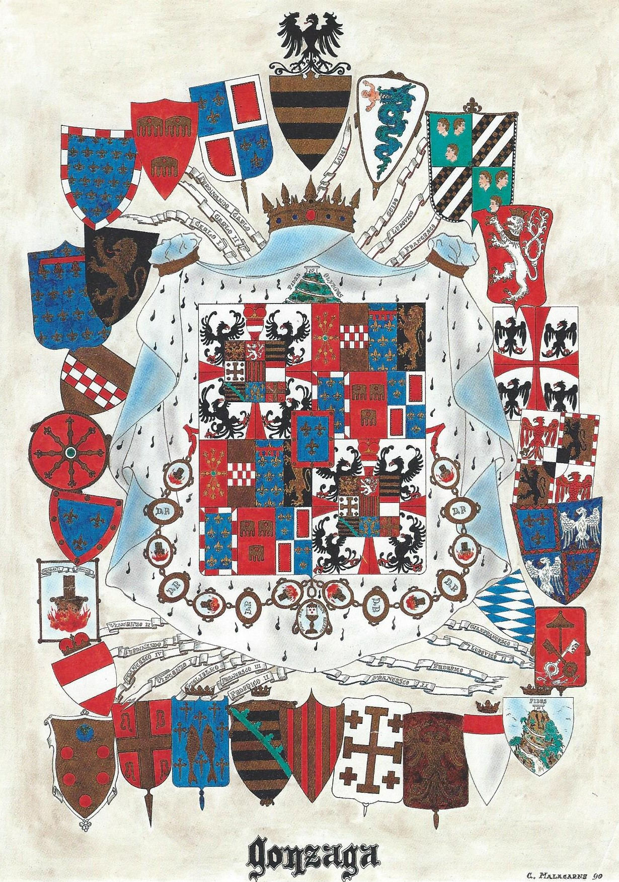 Gonzaga Armonial.